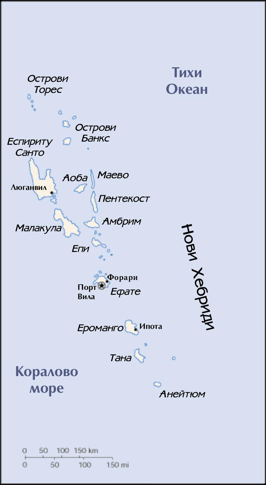 Map of Vanuatu.